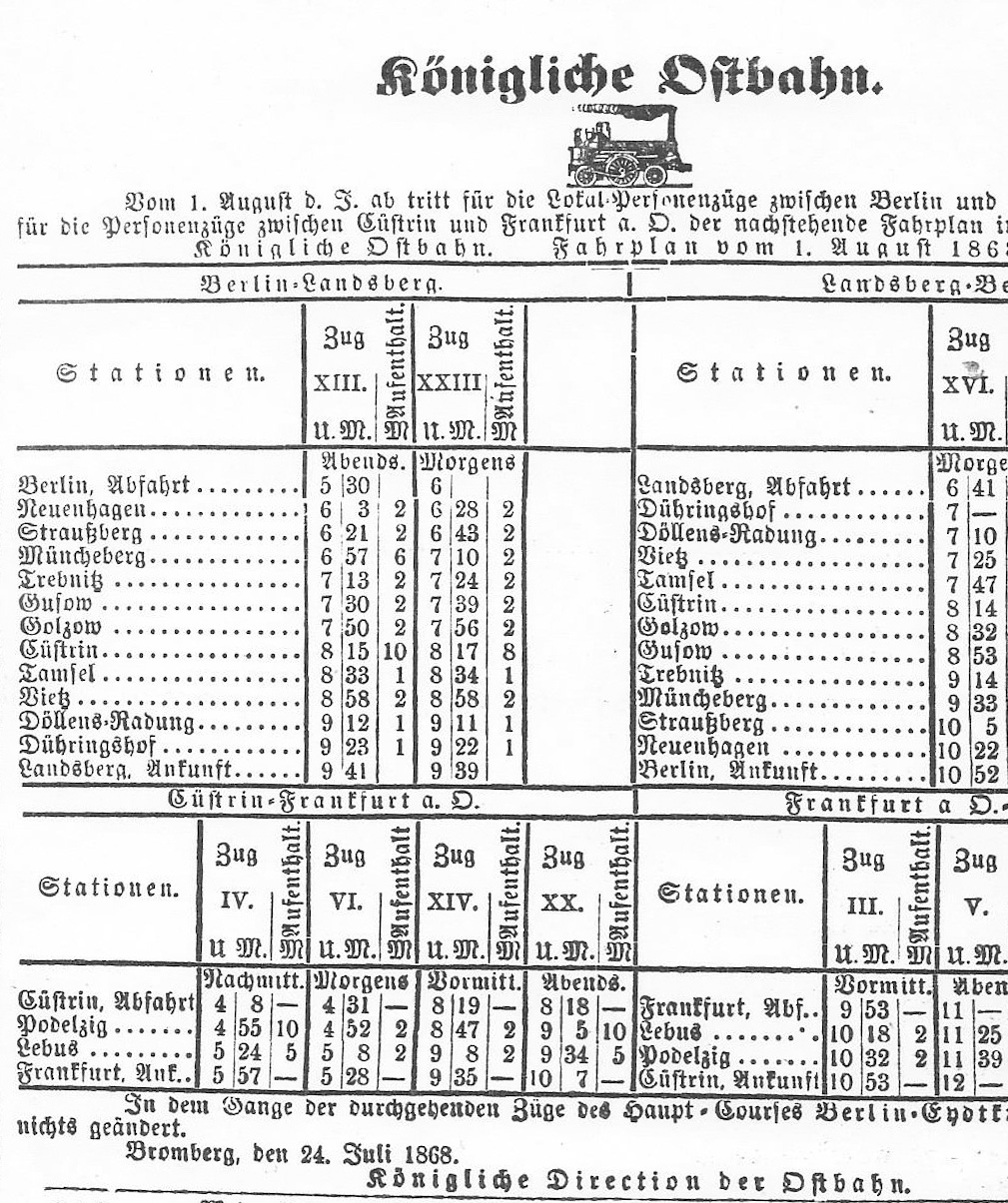 Timetable of the Royal Ostbahn from 1 August 1868